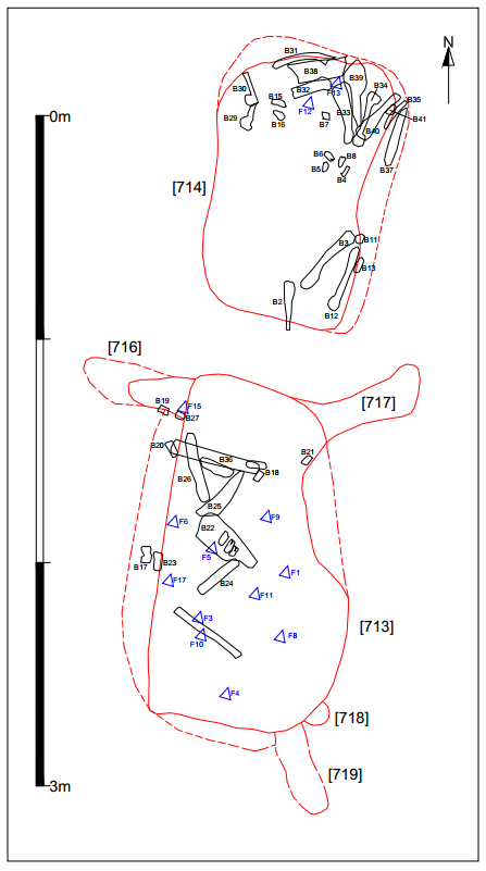 Kuml 7